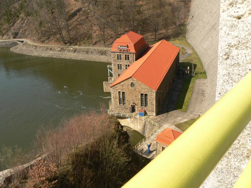 Hydroelectric powerplants in Poland on the Bóbr River, Polchowice